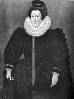 Portrait of Margaret Fiennes, Baroness Dacre, c.1595-1600